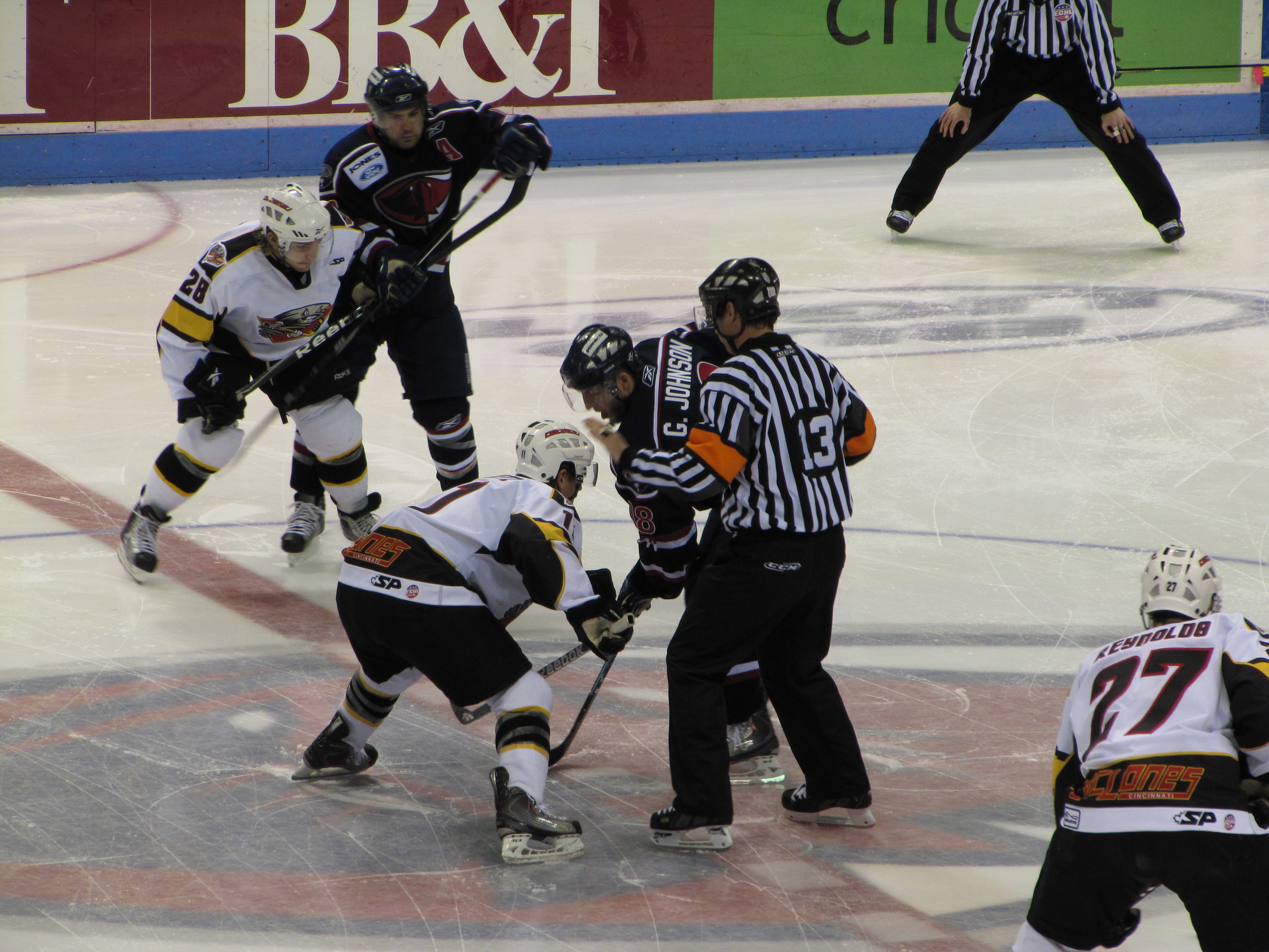 Gregg Johnson faces off against Barret Ehgoetz; Cincinnati Cyclones at South Carolina Stingrays, March 7, 2010.